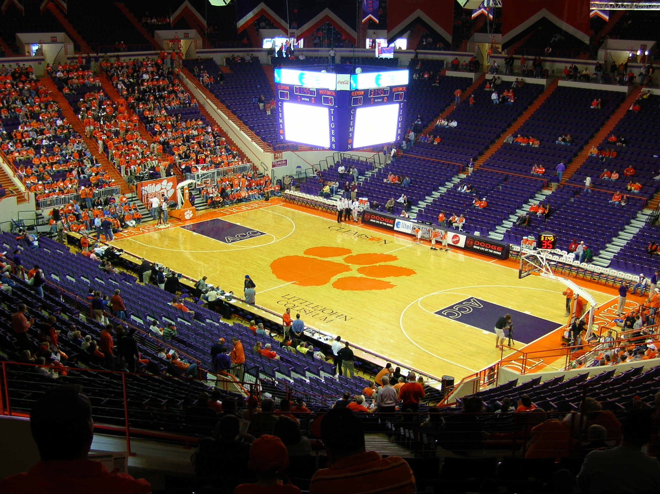 Littlejohn Coliseum from the inside before the January 20, 2007 Boston College game.